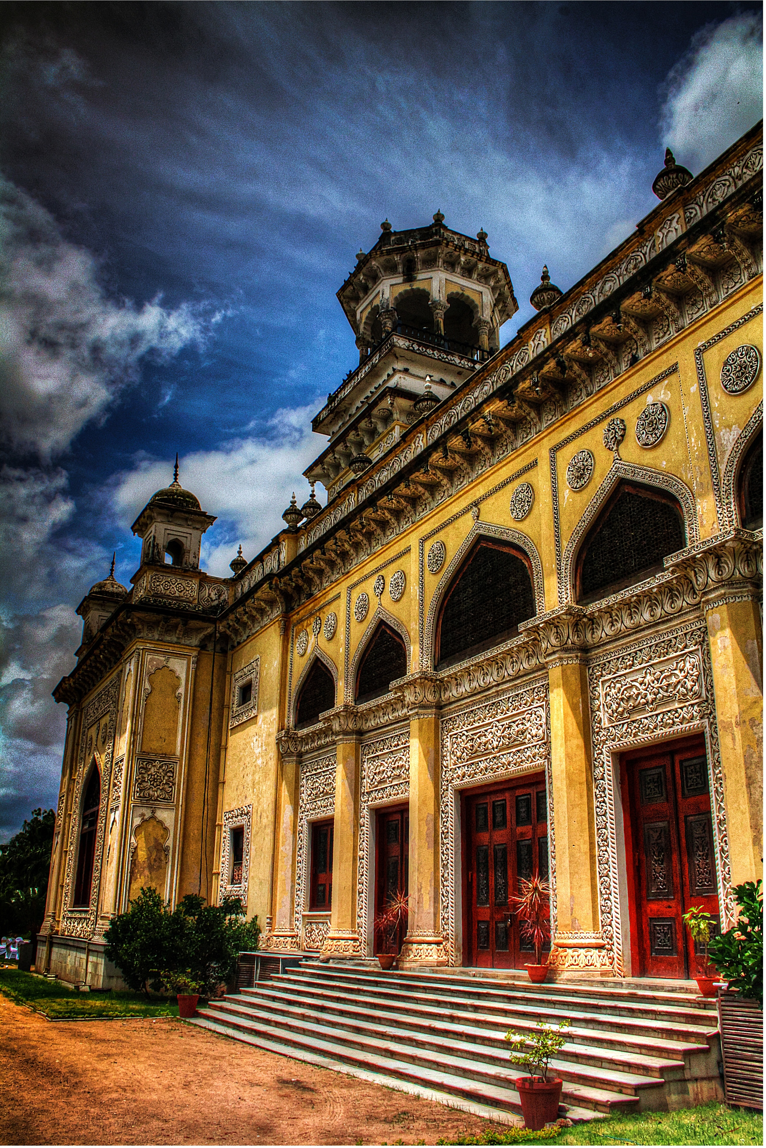 Outside of Aftab Mahal at Chowmahalla Palace